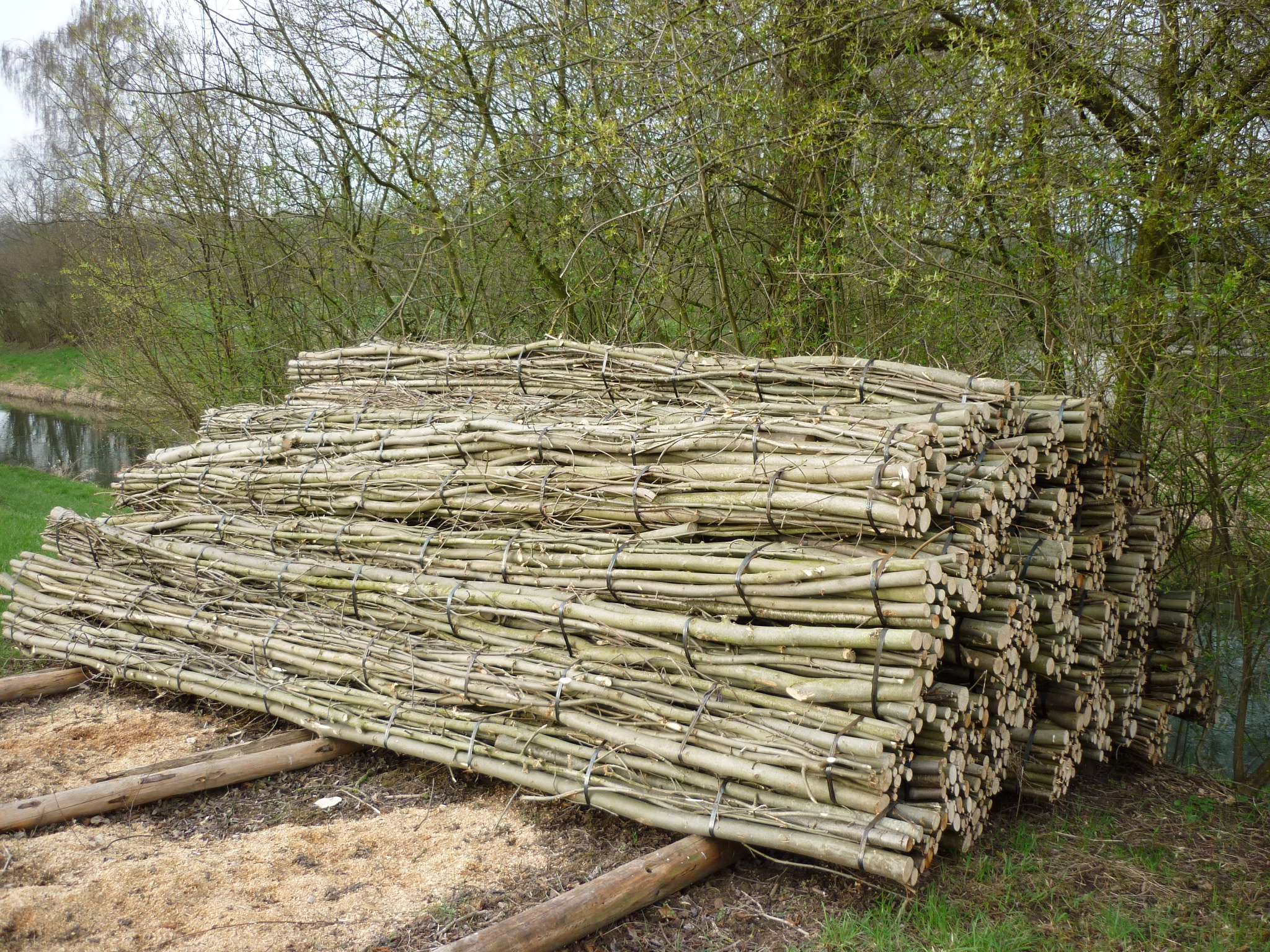 Glatt River, Canton of Zurich, Switzerland